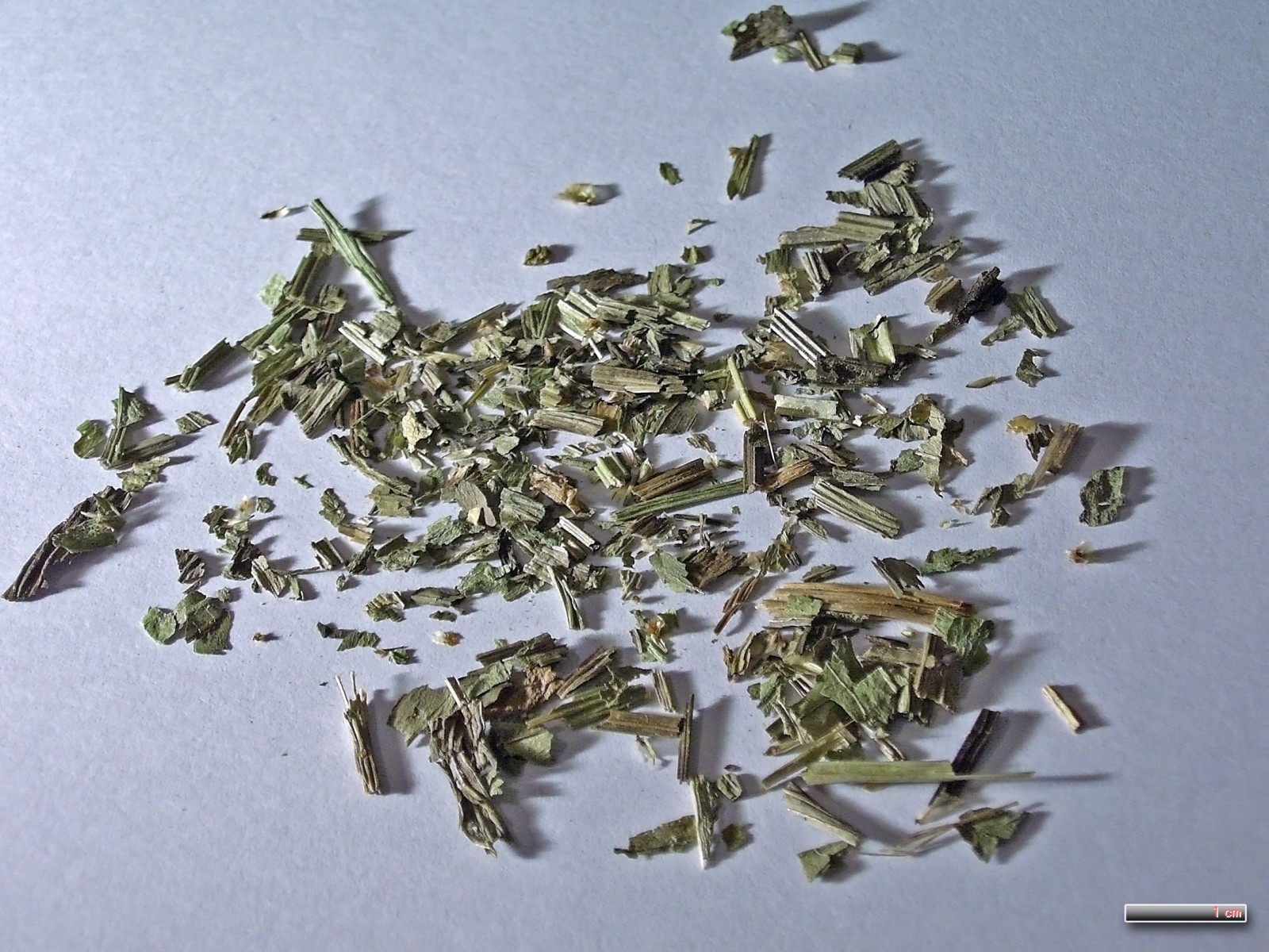 dried Plantago lanceolata is a species of genus Plantago known by the common names ribwort plantain, English plantain, and narrowleaf plantain Herb